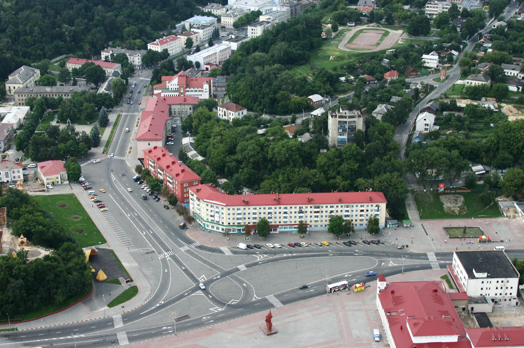 Mazyr